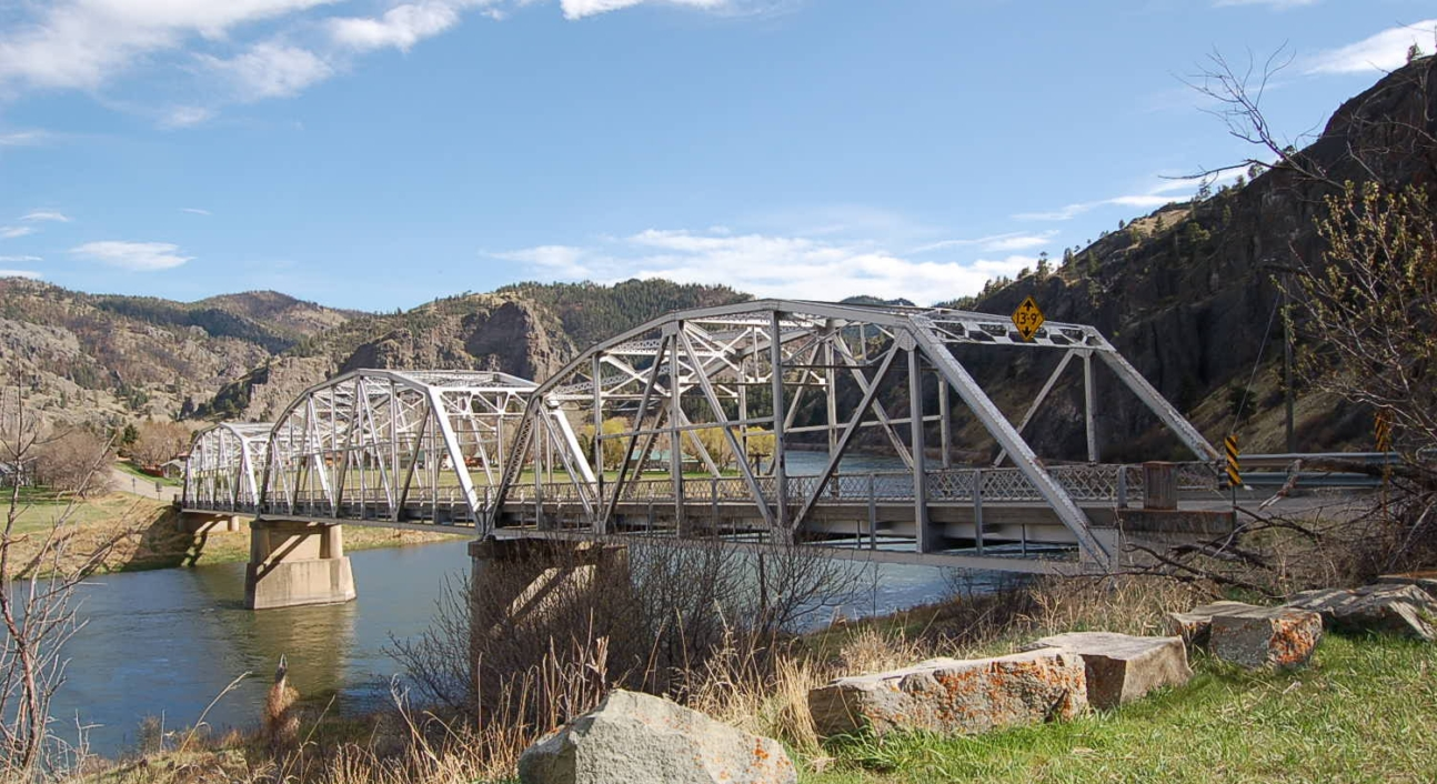 Looking northeast from the south bank of the Missouri River at the Hardy Bridge, a Warren through-truss steel and concrete bridge in Cascade County, Montana, in the United States. The two-lane bridge carries U.S. Route 91 over the Missouri River and the tracks of the BNSF Railway (on the north embankment). It was designed by the Montana Department of Highways, and constructed in 1931 by the firm of Angus McGuire and Evarts Blakeslee of Great Falls, Montana. The bridge was added to the National Register of Historic Places on January 4, 2010.